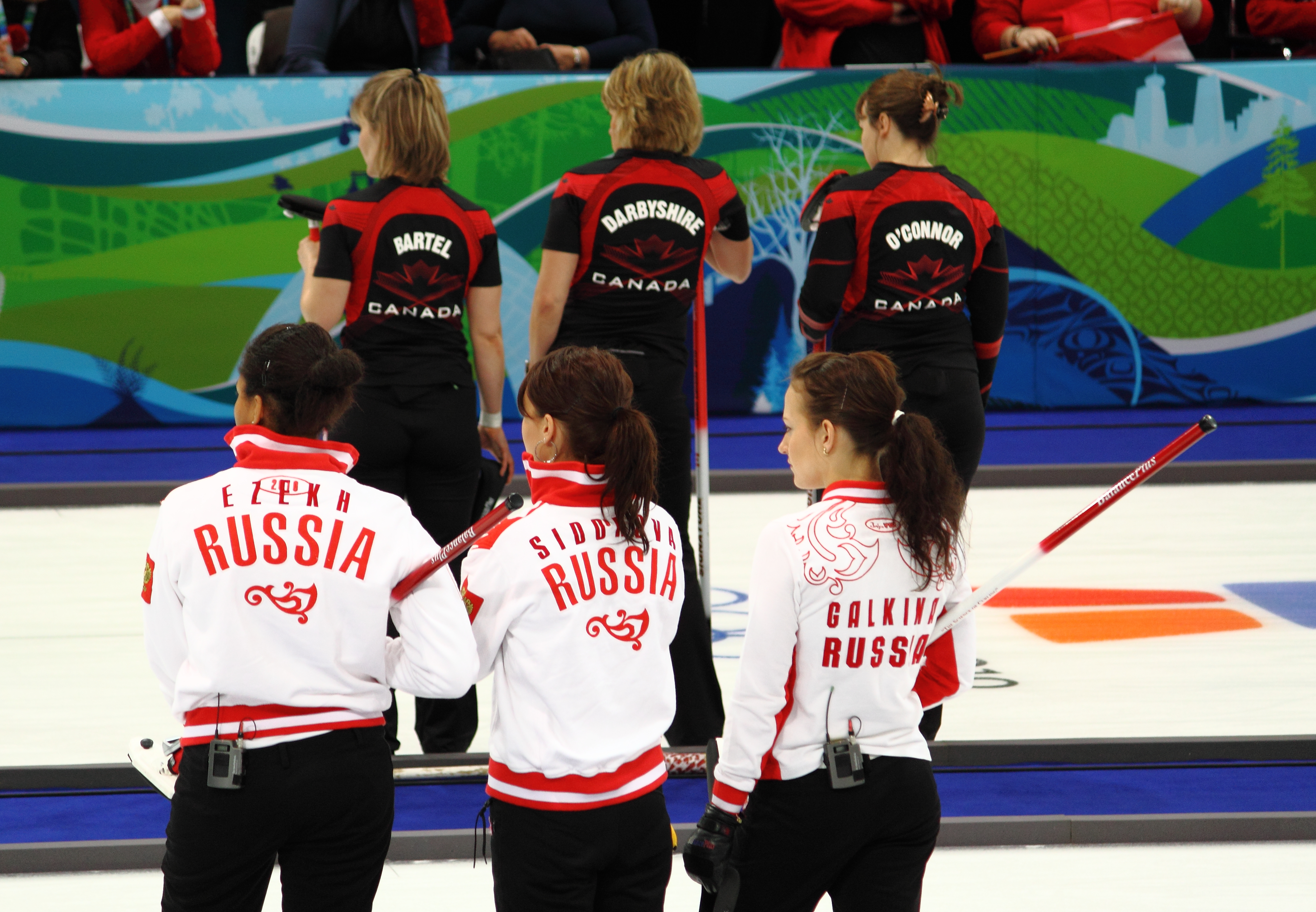 Women's Curling Teams Canada and Russia, 2010 Vancouver Olympic Games - Women's Curling - Preliminary from Vancouver Olympic Centre